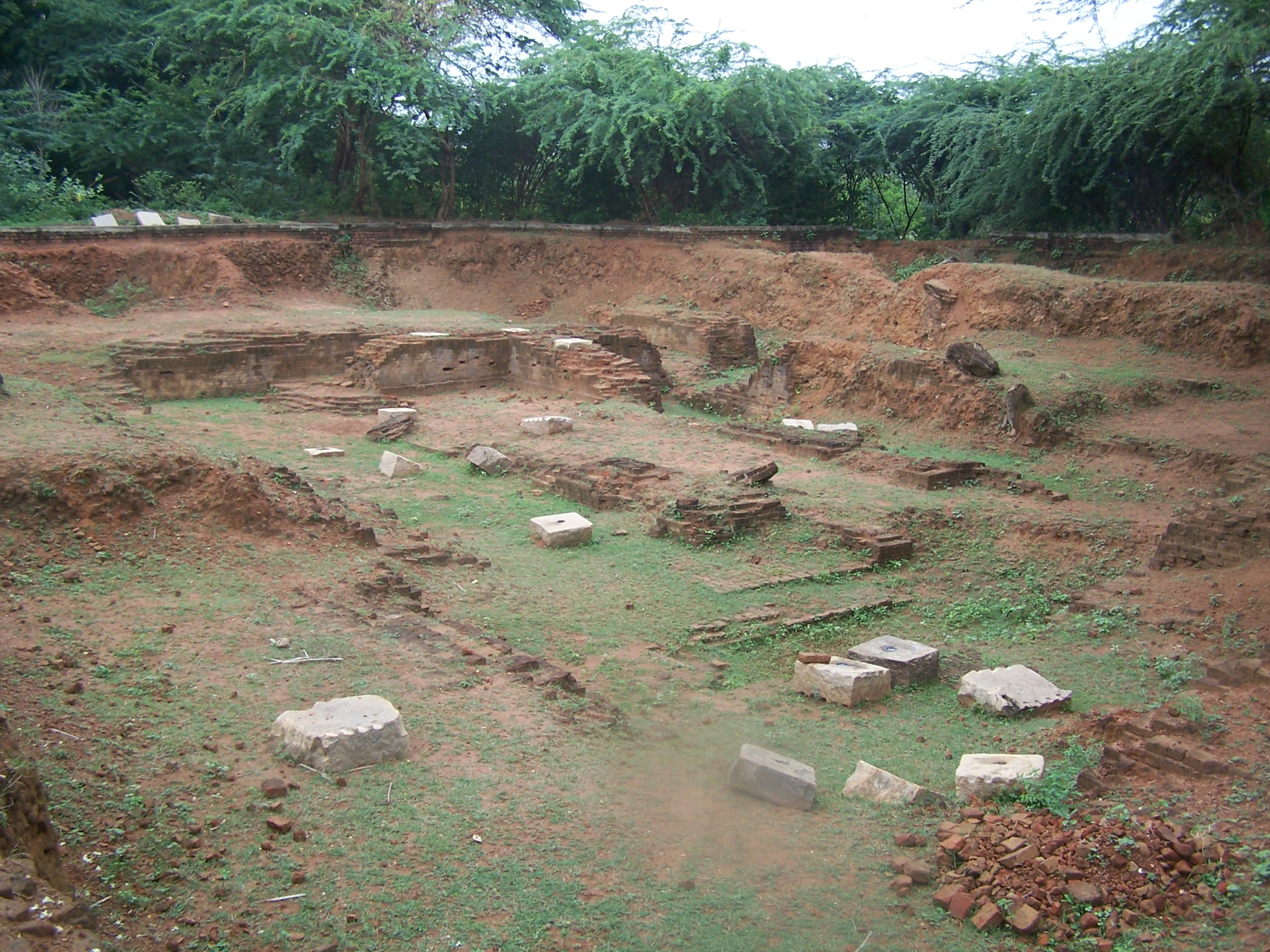 URL : Photo Taken By : kasi arunachalam